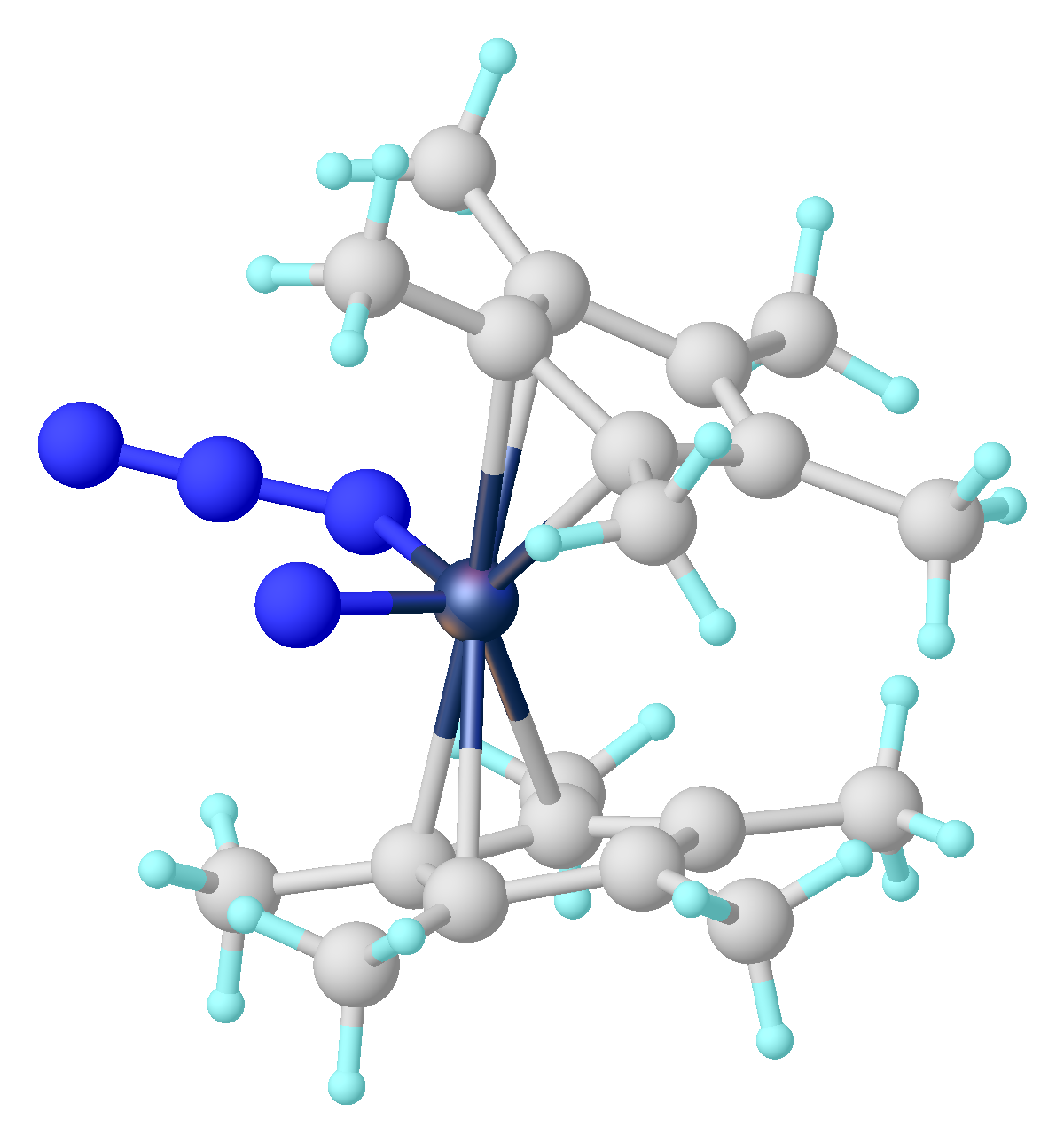 Structure of (eta-3-C5Me5)2Mo(N)(N3) from doi 10.1021/ja011416v